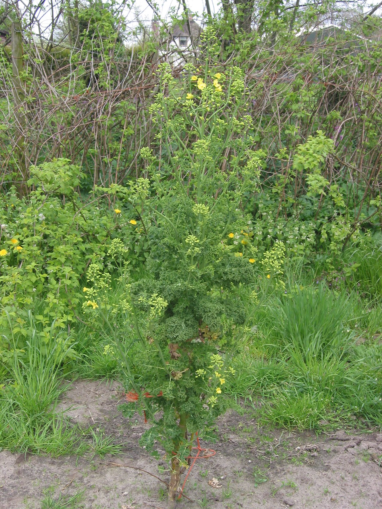 Brassica oleracea Boerenkool bloei